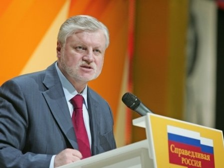 III Congress of the party "A Just Russia", Moscow, Kremlin Palace of congresses. Leader party Mr. Sergei Mironov